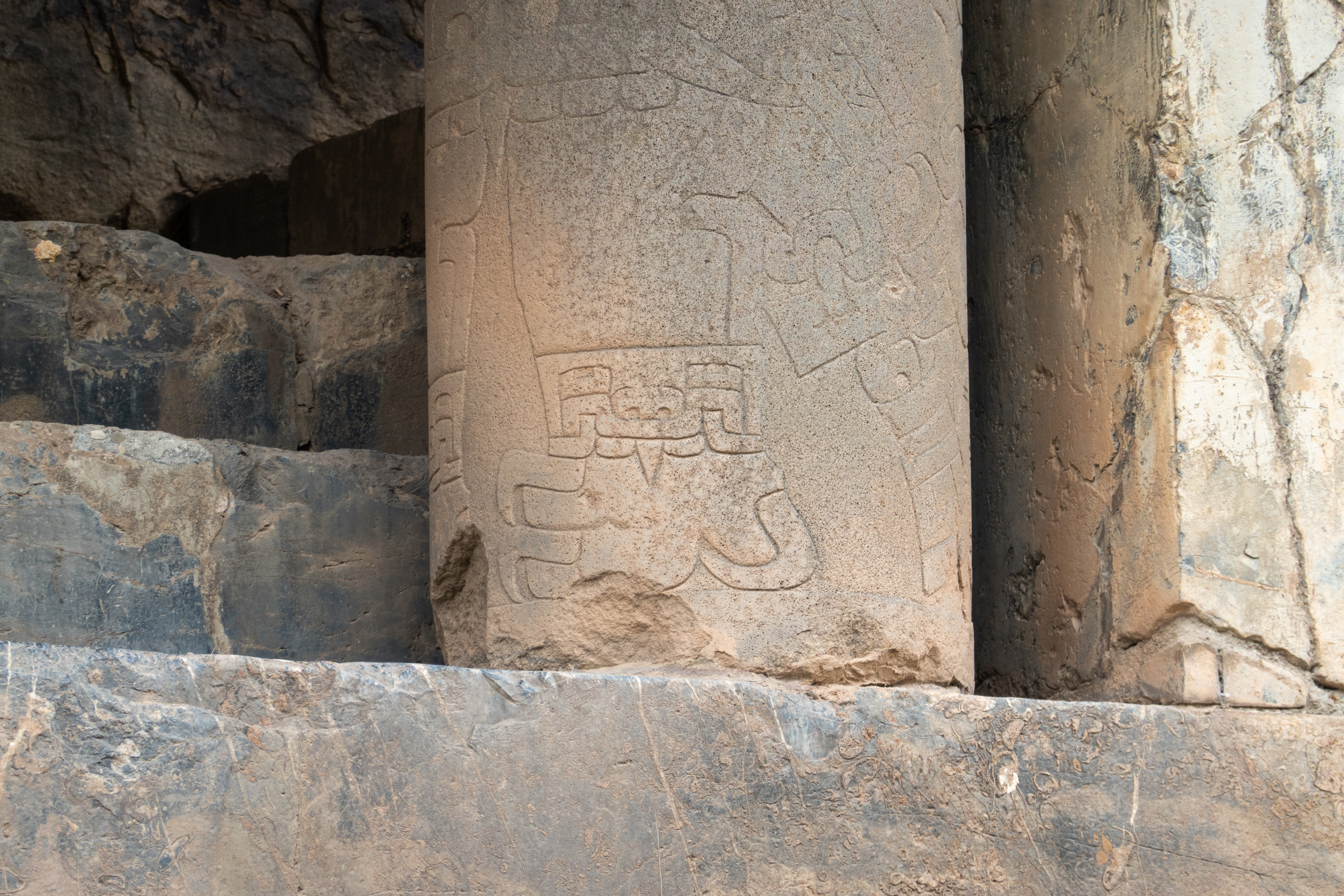 Chavín de Huantar - Ancash region, Peru 330